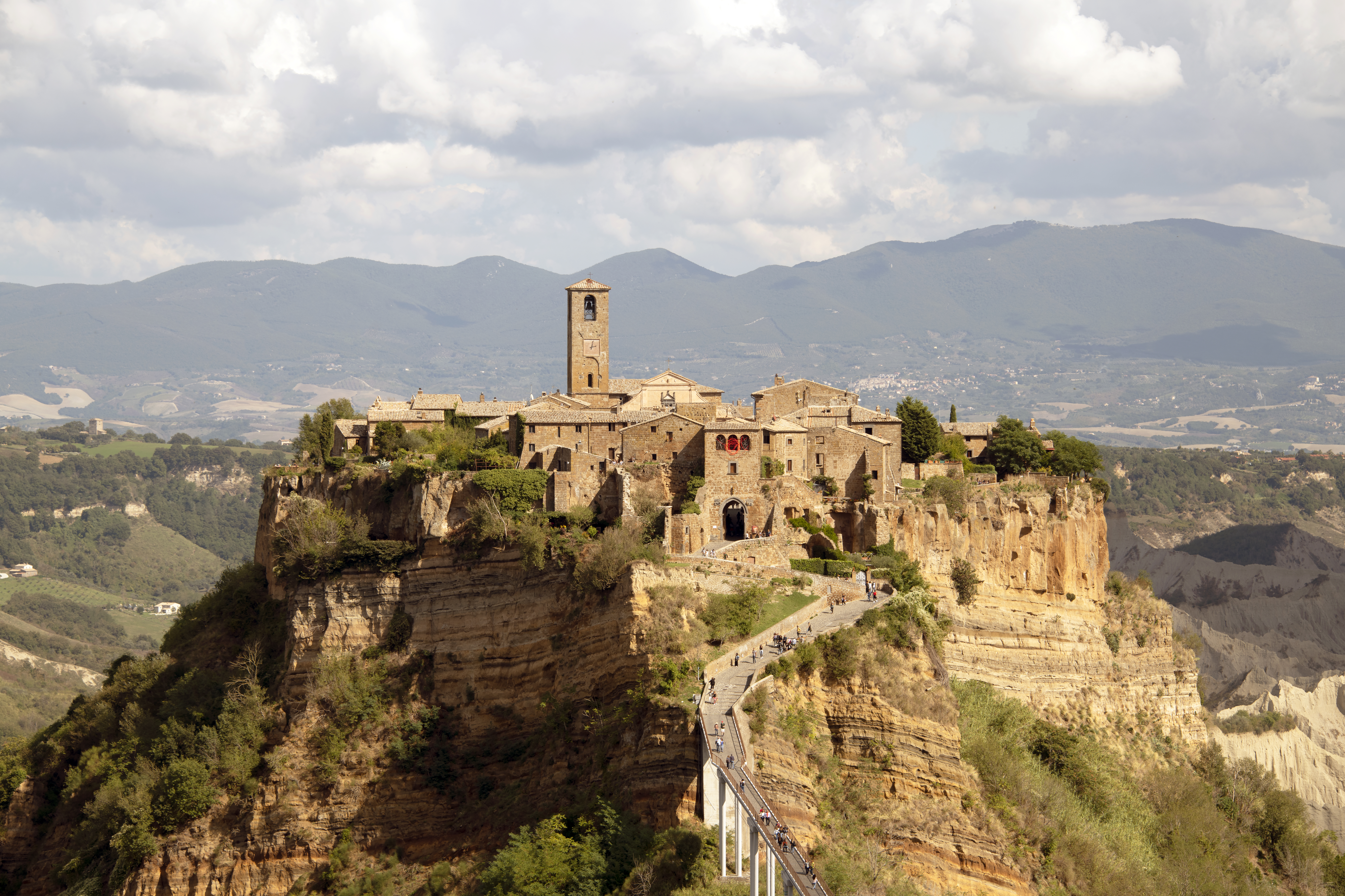 Civita (Bagnoregio) - Panorama